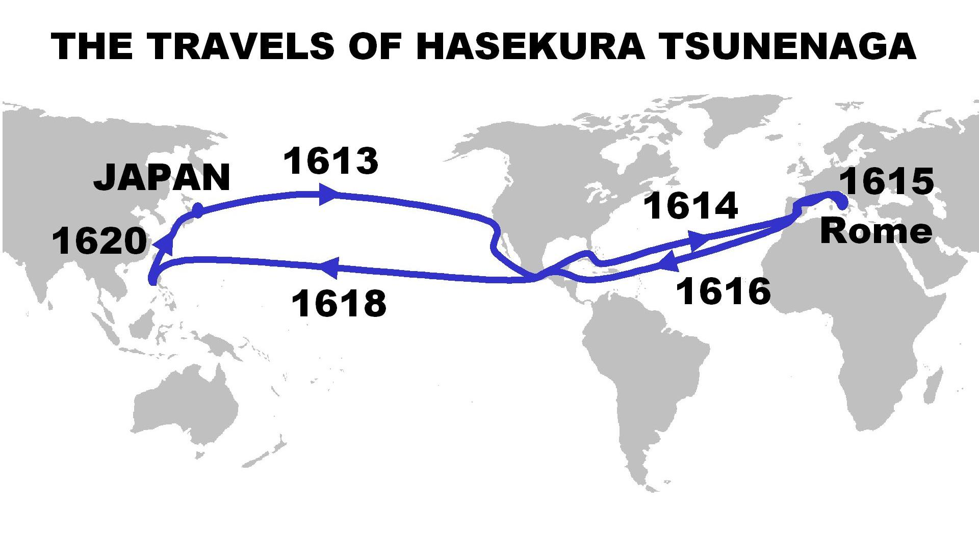 Map with larger numbers.